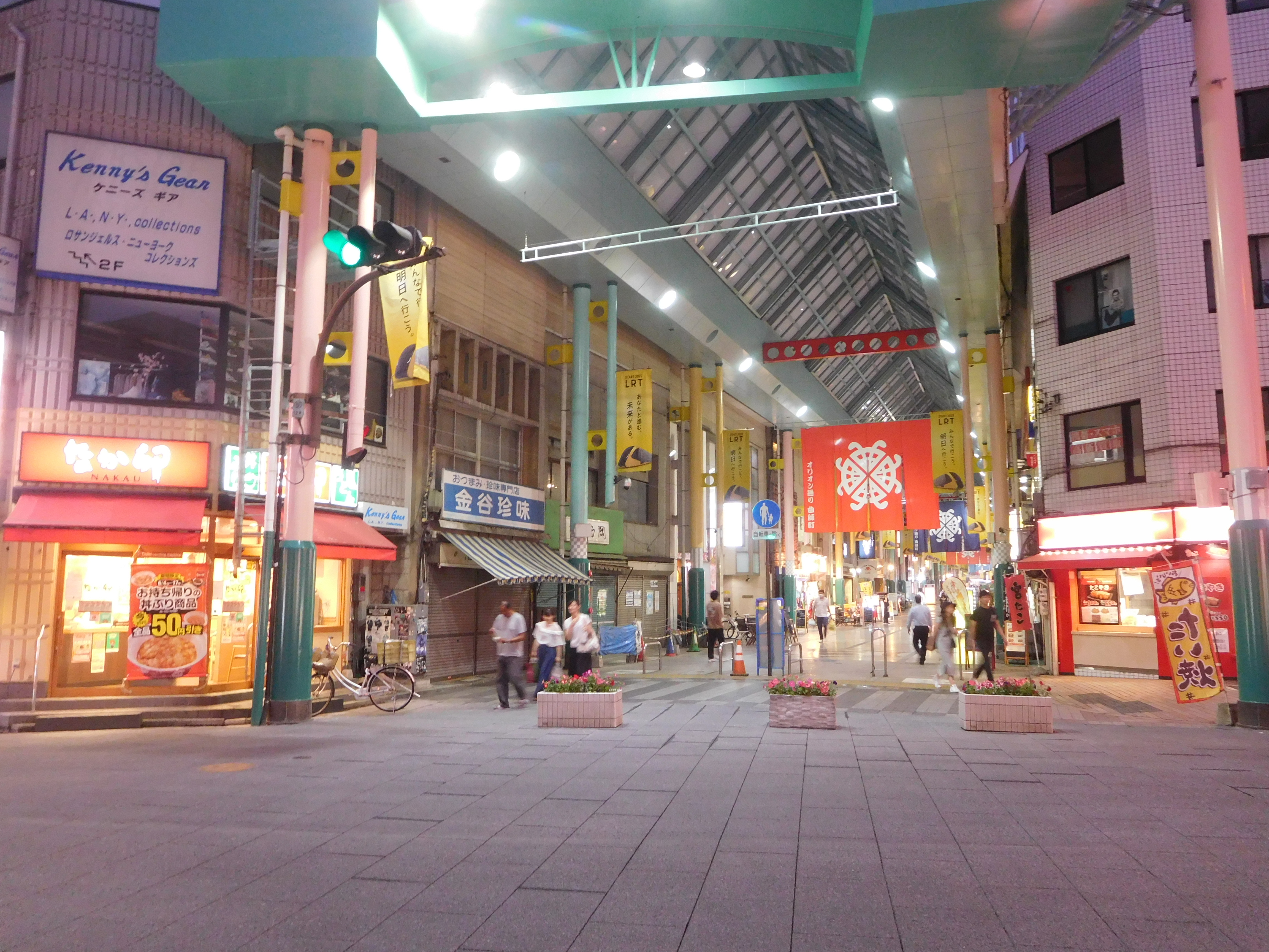 This is east entrance of Orion street in Utsunomiya, Tochigi, Japan.